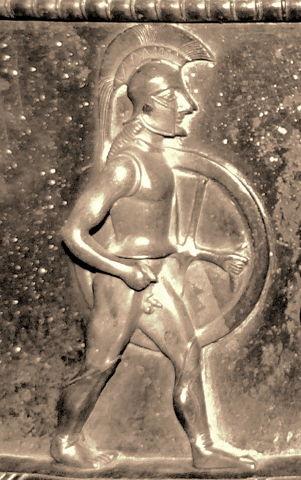 Vix crater hoplite circa 500 BCE